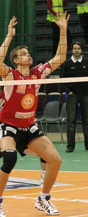 Finland volleyball player Anssi Vesanen.